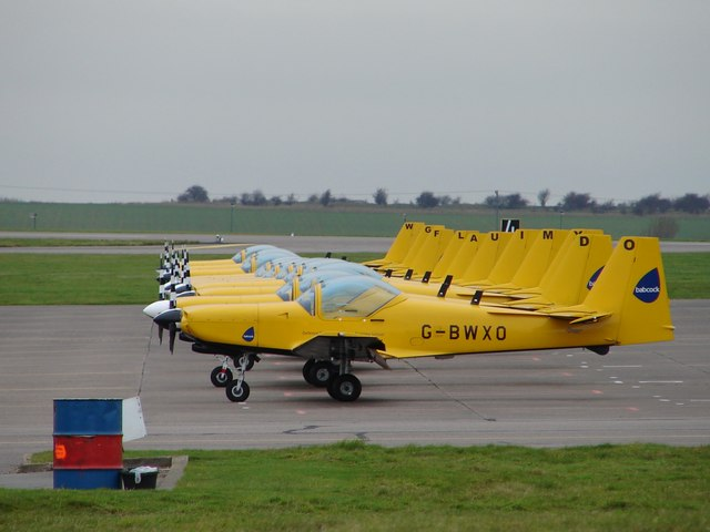 WGFLAUIMXDO Pilot training at the Joint Elementary Flying Training School, RAF Barkston Heath involves these cute yellow Firefly aircraft. The title refers to the letter on their tail fins in case you were wondering!